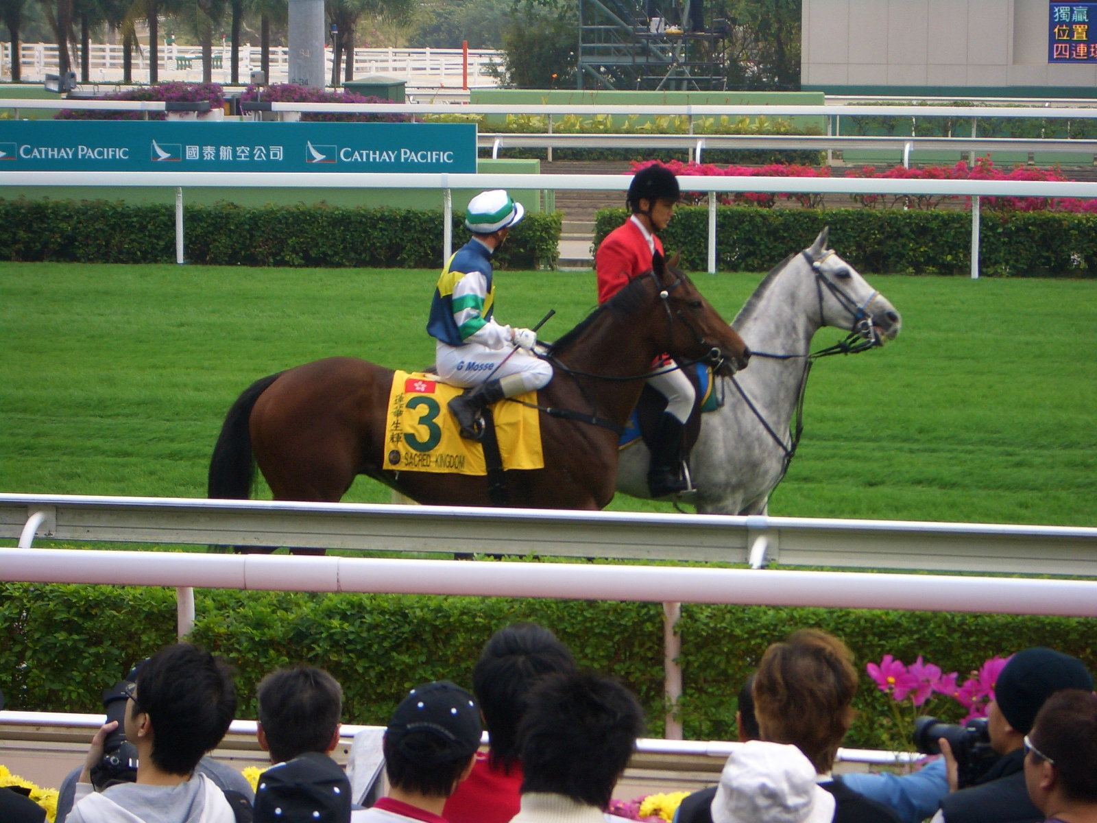 Sacred Kingdom (AUS)(aka Jumbo Star) Bay gelding, foaled: 18/11/2003 By Encosta De Lago from Courtroom Sweetie. Exported to Hong Kong on 20 Mar 2006 (front